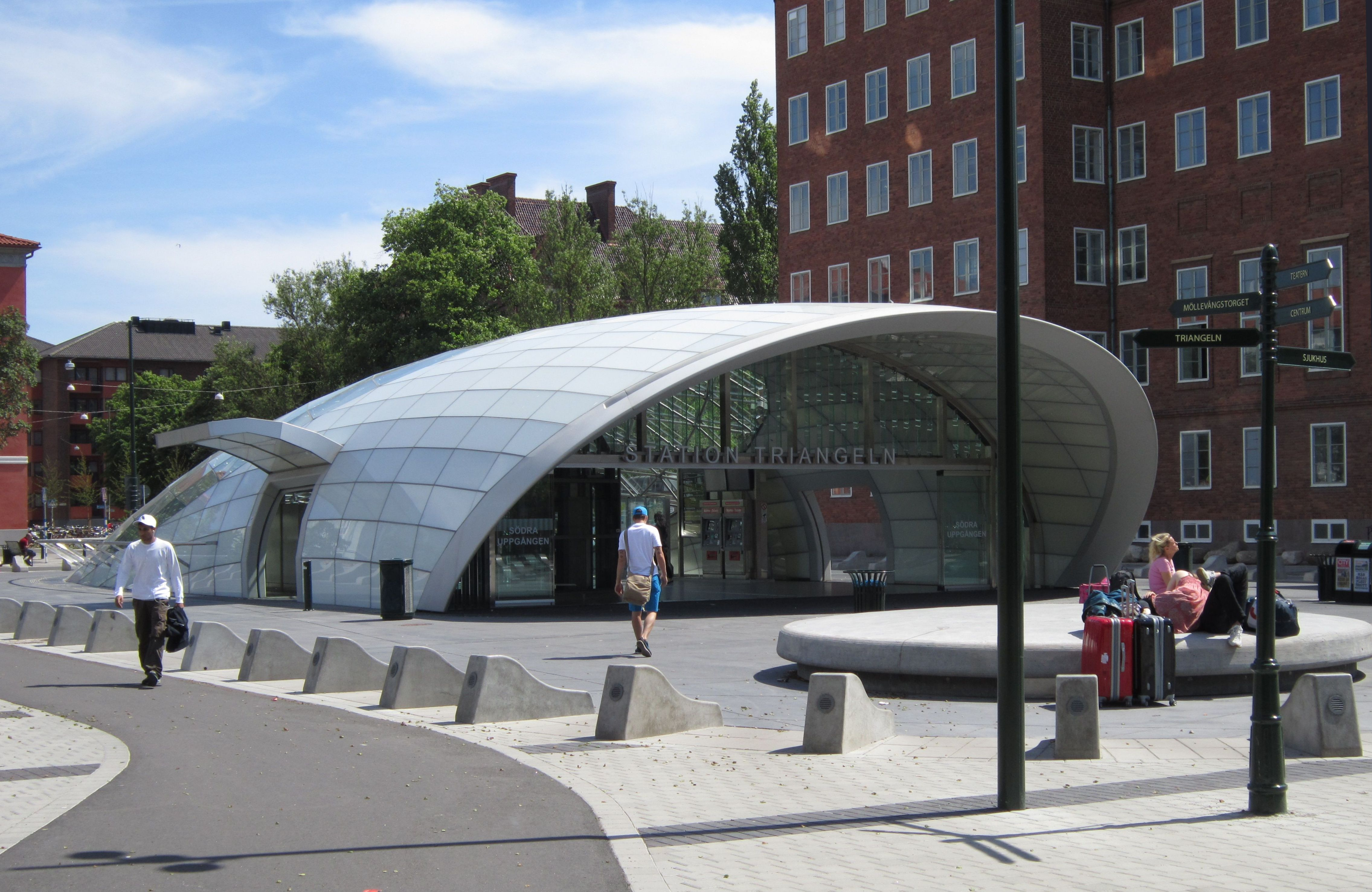 Triangeln railway station, southern entrance